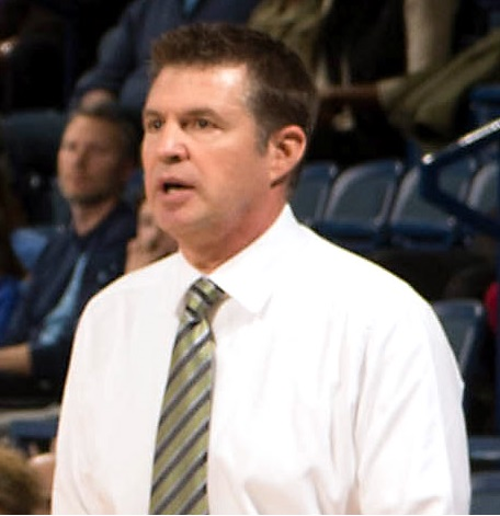 Colorado State University women's basketball head coach Ryun Williams during a game at the U.S. Air Force Academy in Clune Arena on January 9, 2019.